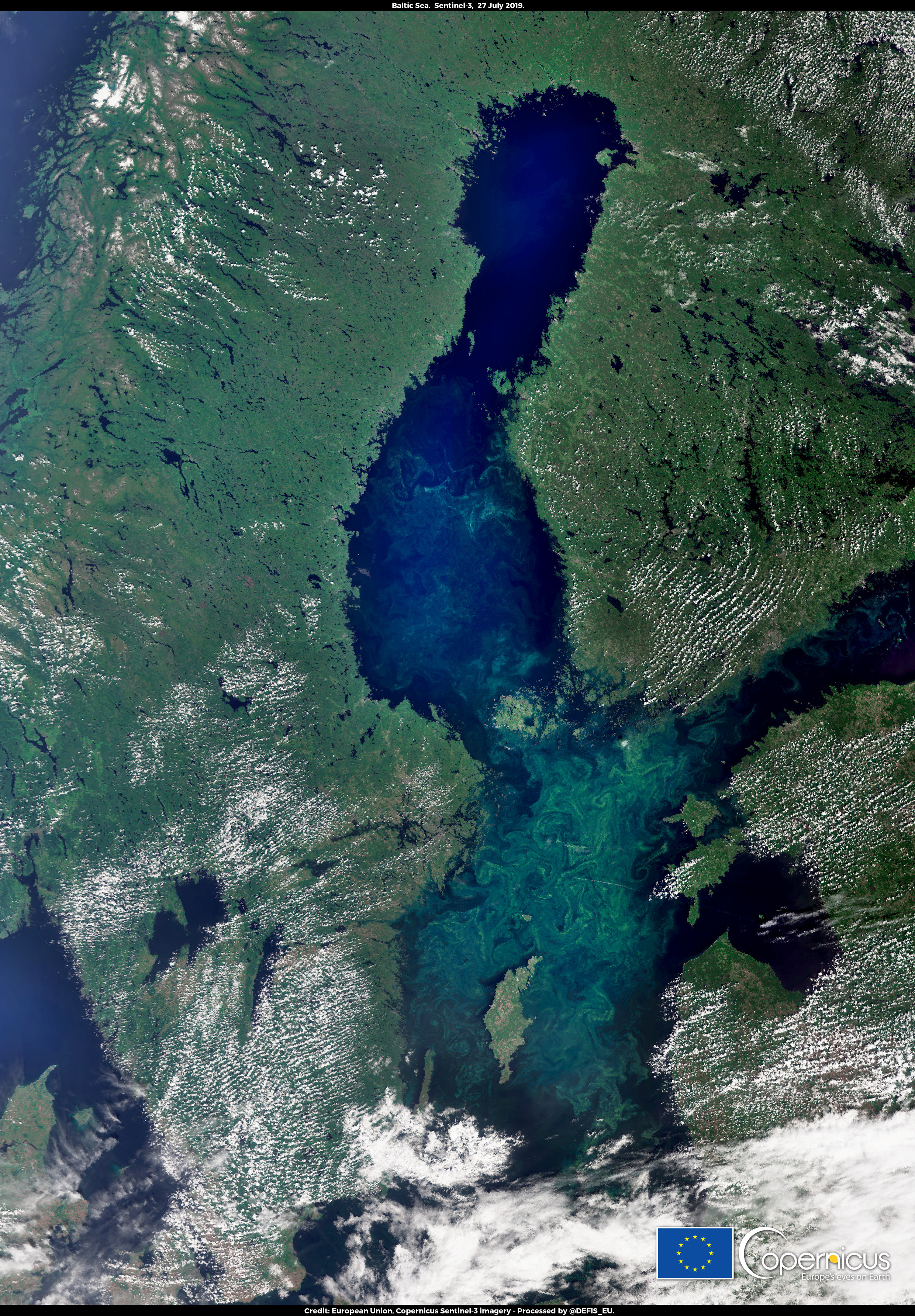 The Baltic Sea